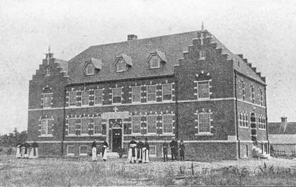 New Cloister at Onamia, Minnesota.